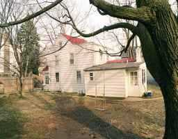 Phebe Seaman House (1790), Greenwich, Connecticut